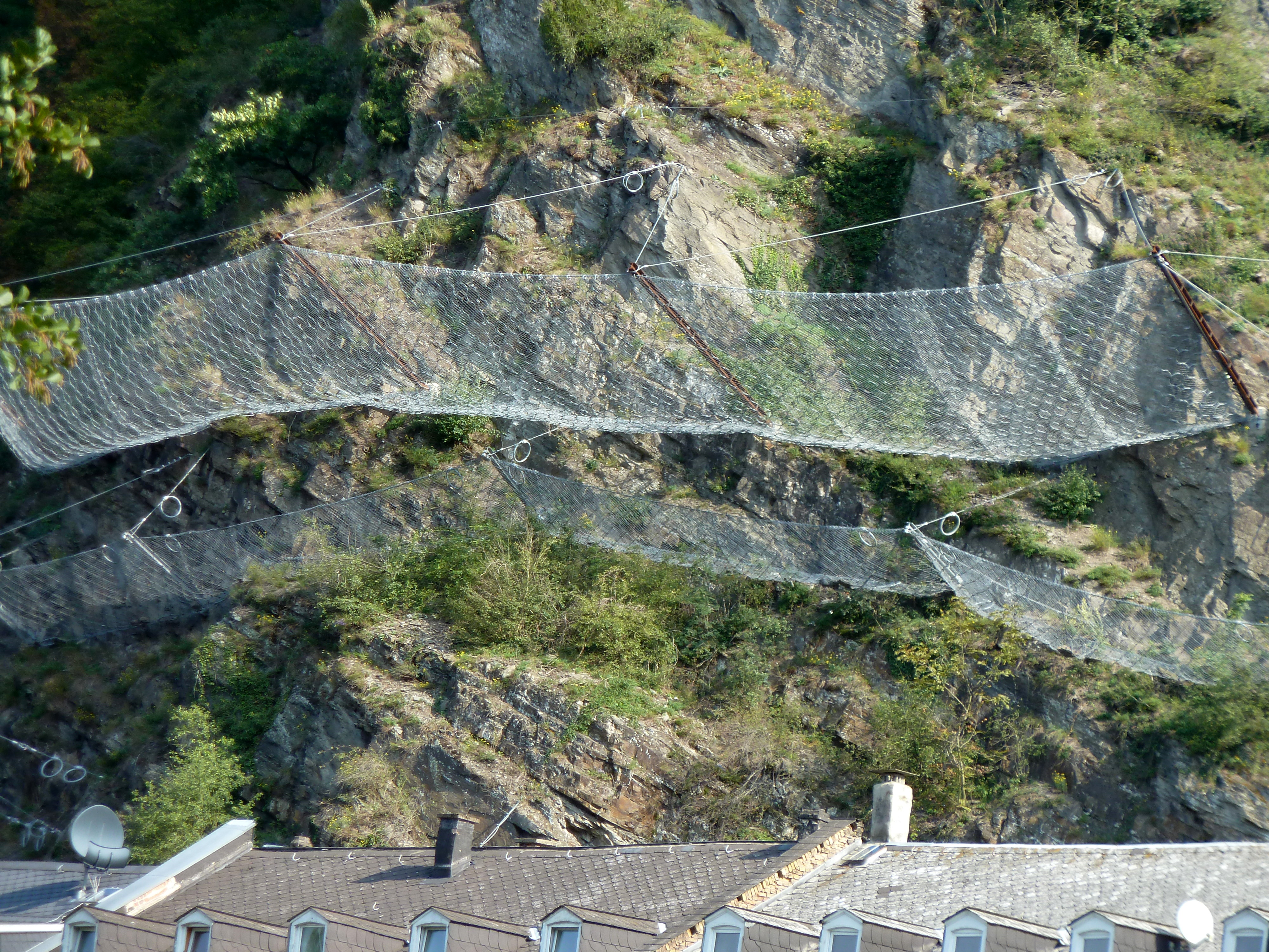 Falling stones protection nets at montain Baederley in Bad Ems